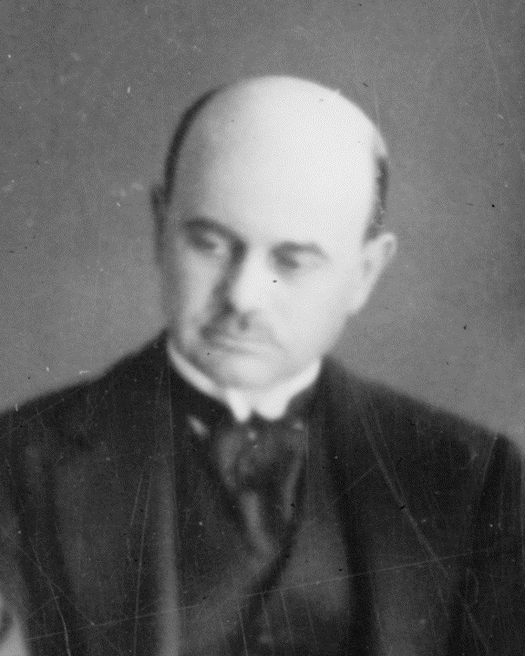 Sir Hardman Lever at the signing the British War Loan, 1917.